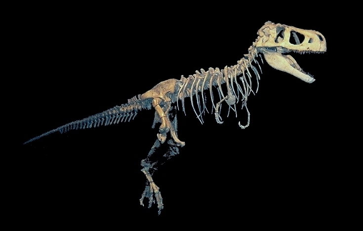 Tarbosaurus (formerly Tyrannosaurus bataar). This was excavated in the territories of the former Soviet Union. Photograph taken circa April 2002 at a traveling museum exhibit.